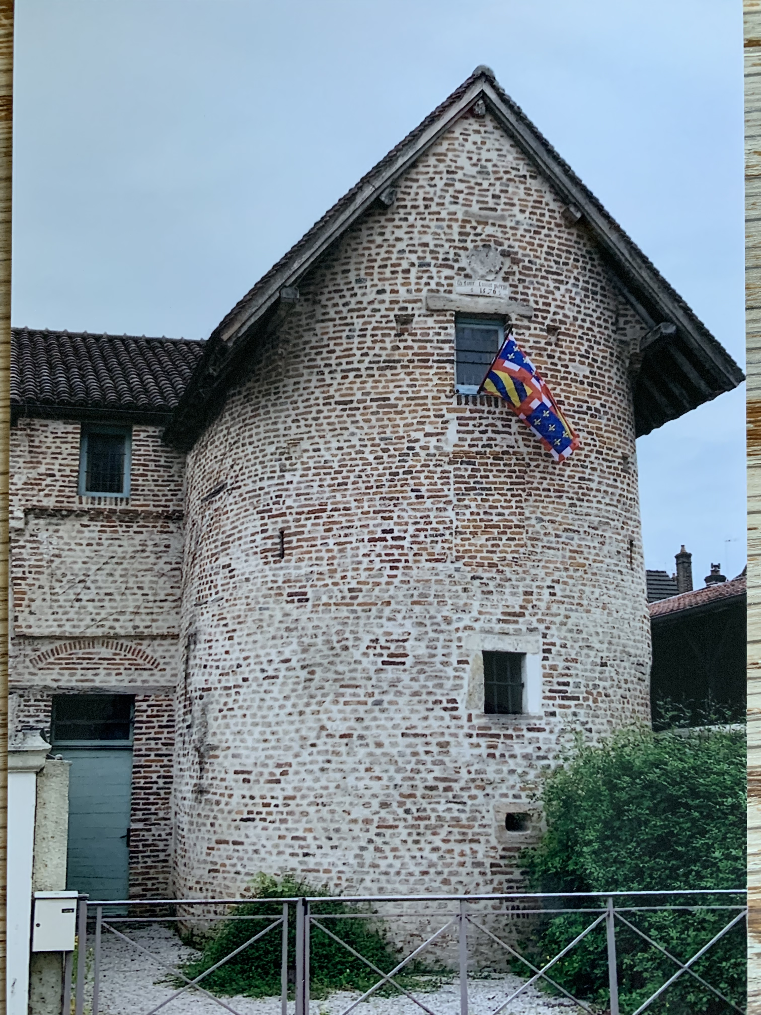 Saint Pierre tower, Louhans